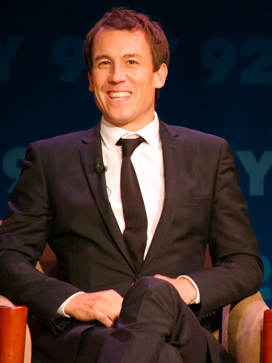 Tobias Menzies at the Outlander premiere in New York at 92Y